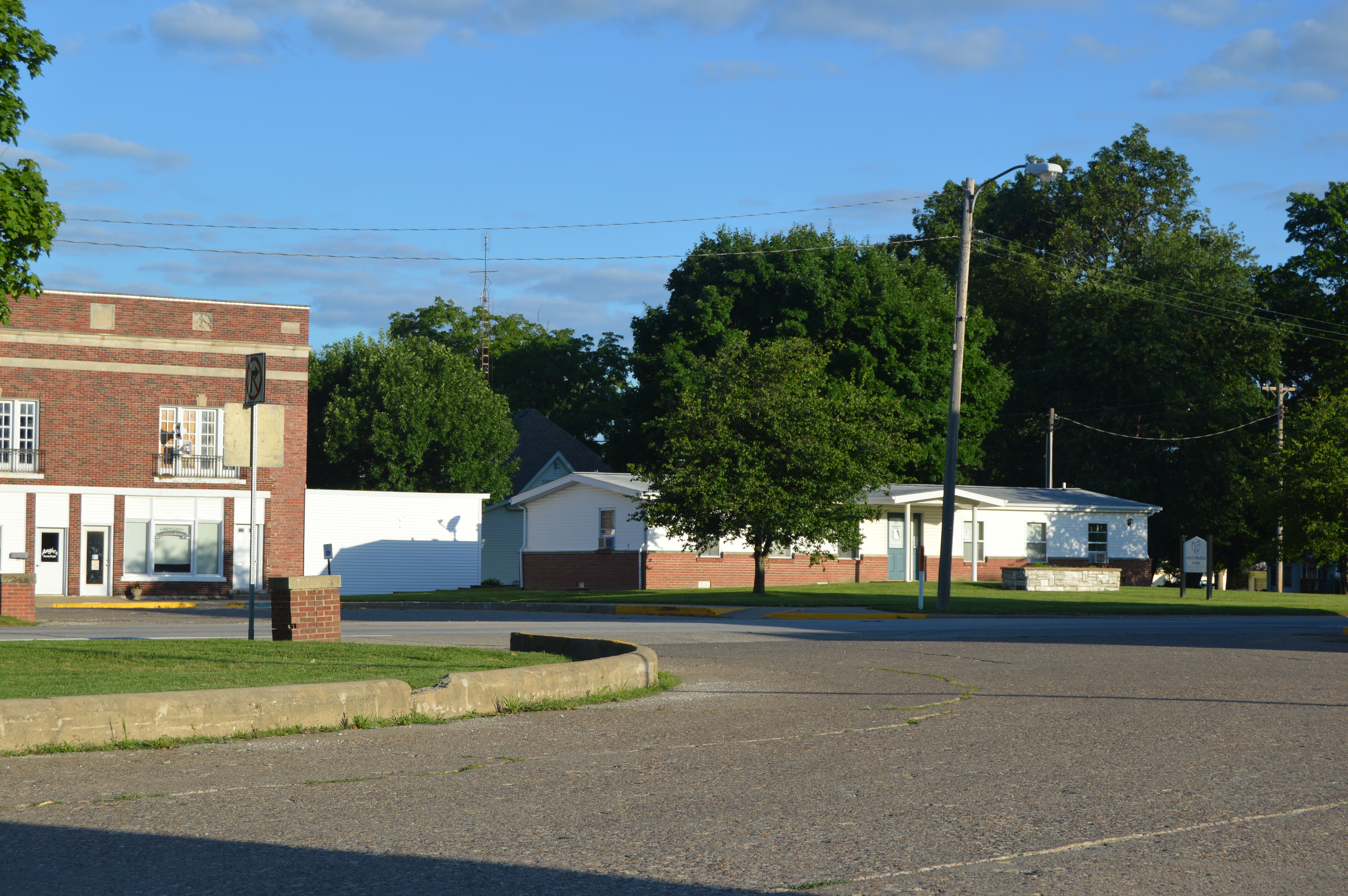 Overview of the northwestern quadrant of the public square in Table Grove, Illinois, United States. The empty lot, on the right side along U.S. Route 136, was formerly the site of the Carithers Store Building, which was listed on the National Register of Historic Places in 1987; although destroyed, it has not yet been removed from the Register.